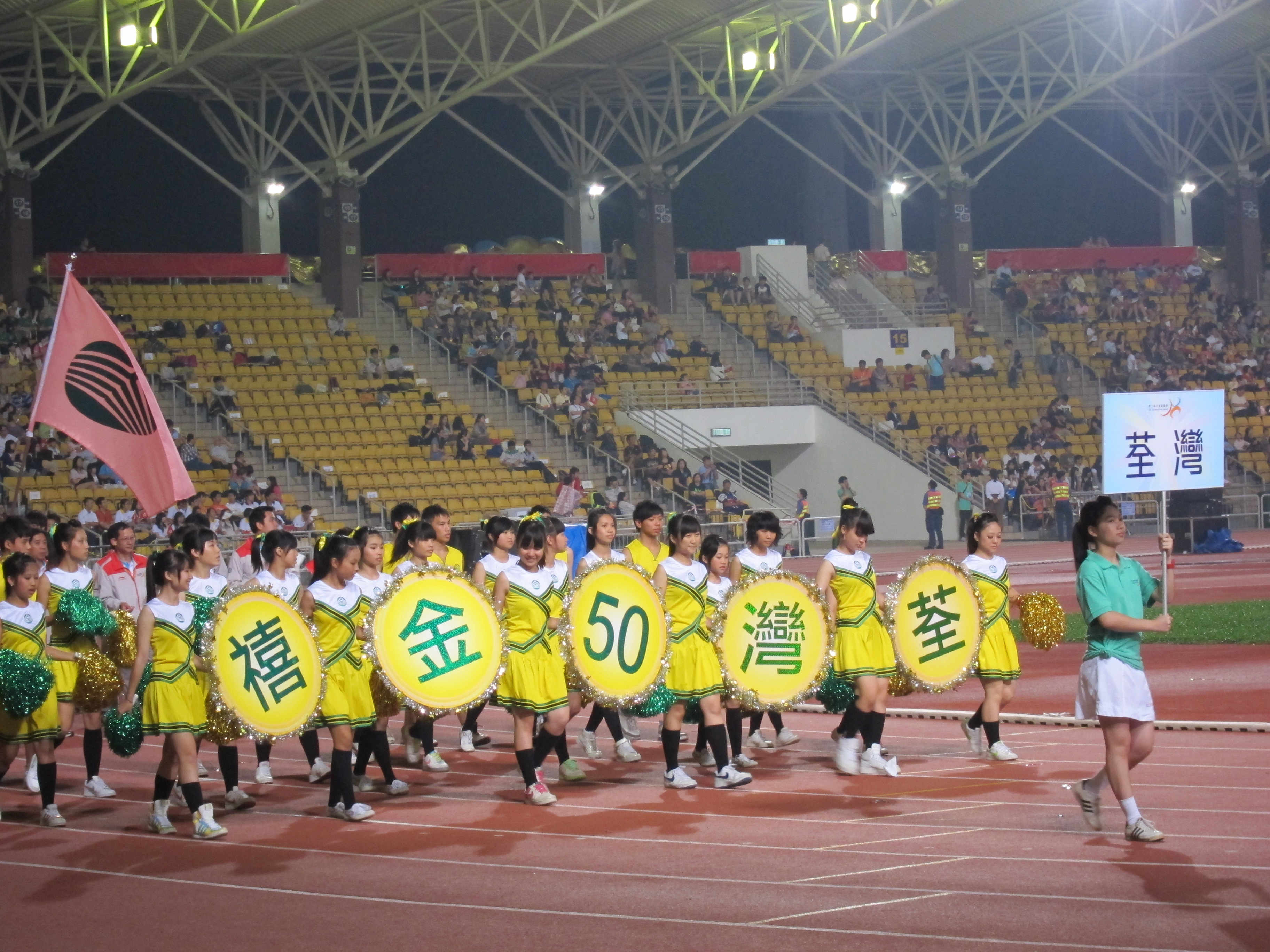 The open ceremony of the 2011 Hong Kong Games - The cheering team and athletes of Tsuen Wan Team. 中文（香港）: 2011年全港運動會開幕典禮－荃灣區的啦啦隊及運動員代表進場。